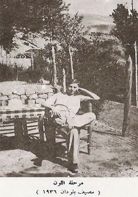 The late Syrian Poet Nizar Kabbani in the summer resort of Bloudan, Syria.